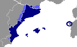 Areas where Catalan is an official language Areas where Catalan is not an official language